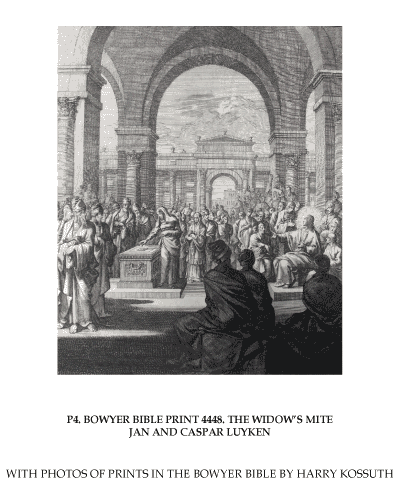 The widow’s mite. Jan and Caspar Luyken. In the Bowyer Bible in Bolton Museum, England. Print 4448. From “An Illustrated Commentary on the Gospel of Mark” by Phillip Medhurst. Section P. into Jerusalem. Mark 10:46-52, 11:1-11, 11:15-18, 12:41-44.